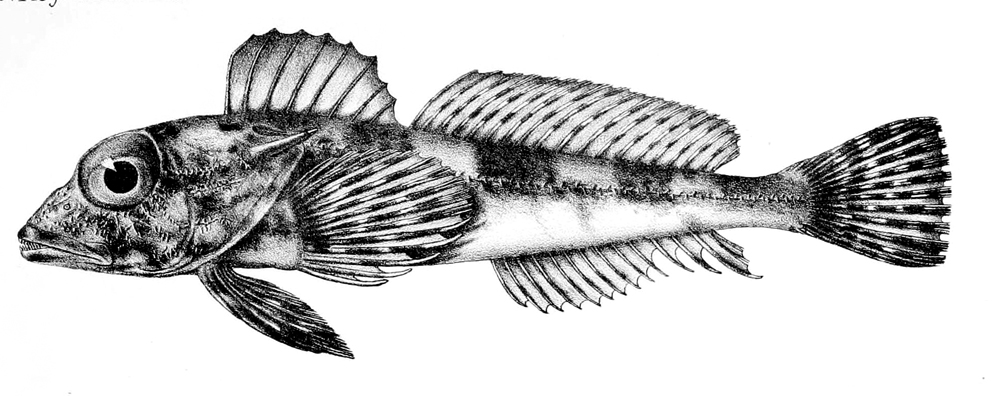 Bovichtus angustifrons